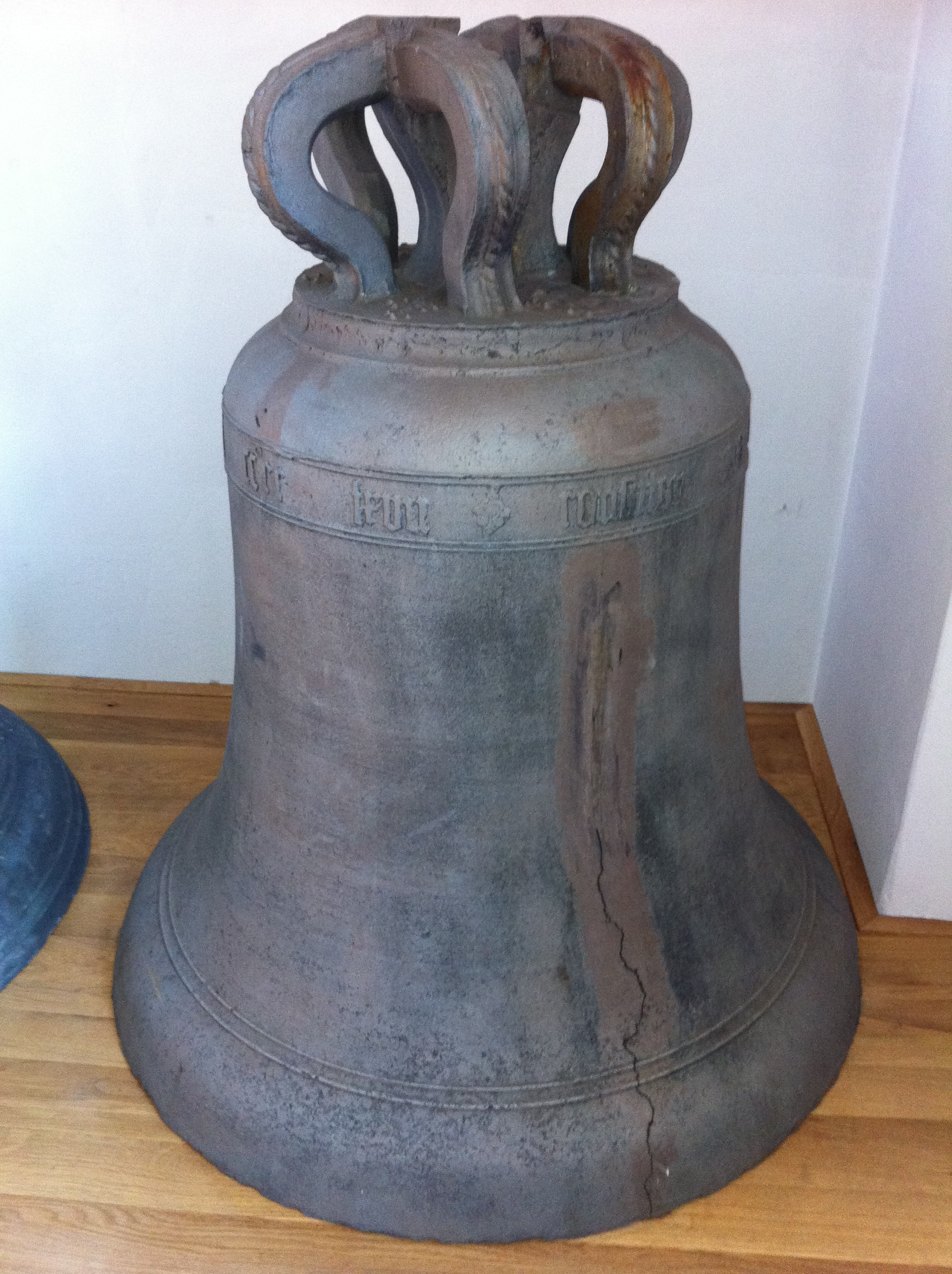 Beim Brand der St. Laurentiuskirche in Halle (Saale) zerstörte Glocke. Standort heute: im Innern der Kirche